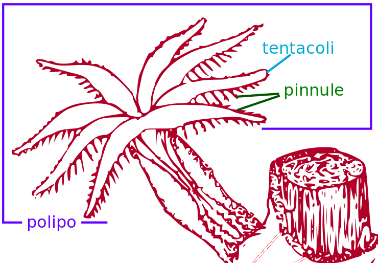 Illustration of a gorgonian. Italian terms